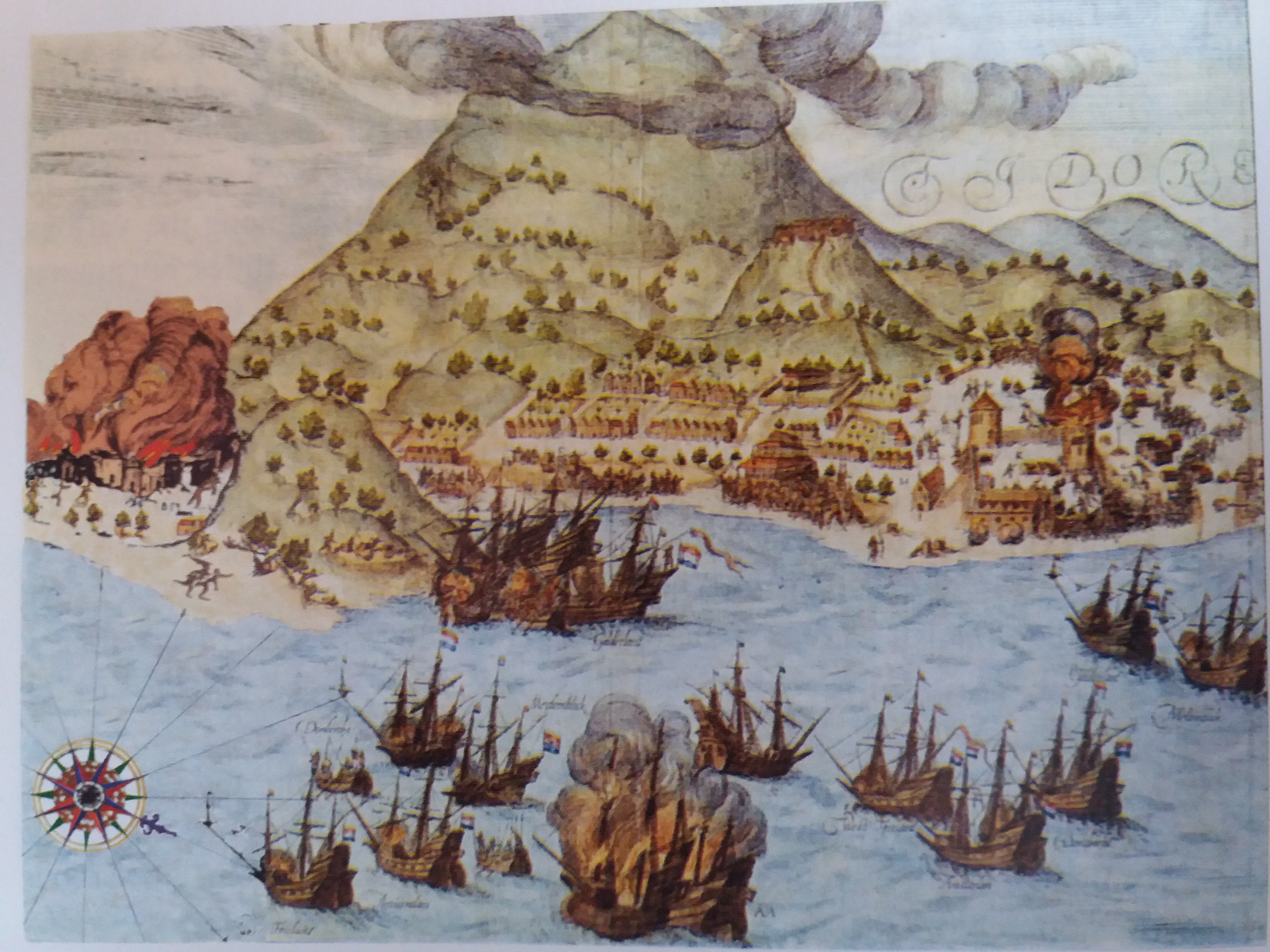 VOC attack on the Iberian fort in Tidore in 1605, from Asia Orientalis (1607)